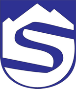 Coat of arms of Svit, Slovakia